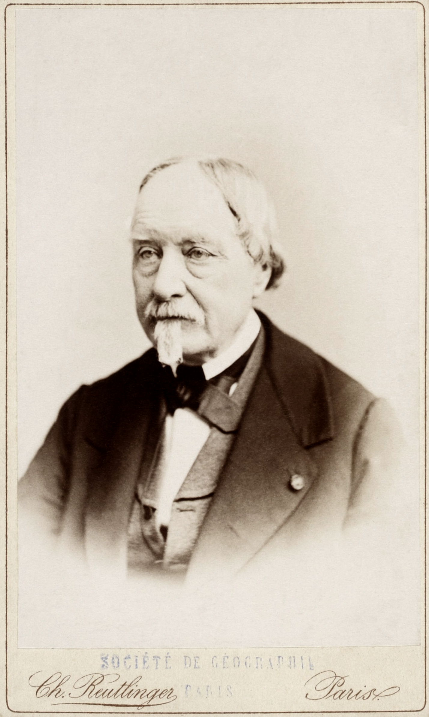 William Mac Guckin de Slane (1801 - 1878), french orientalist and arabic translator, of Irish descent.